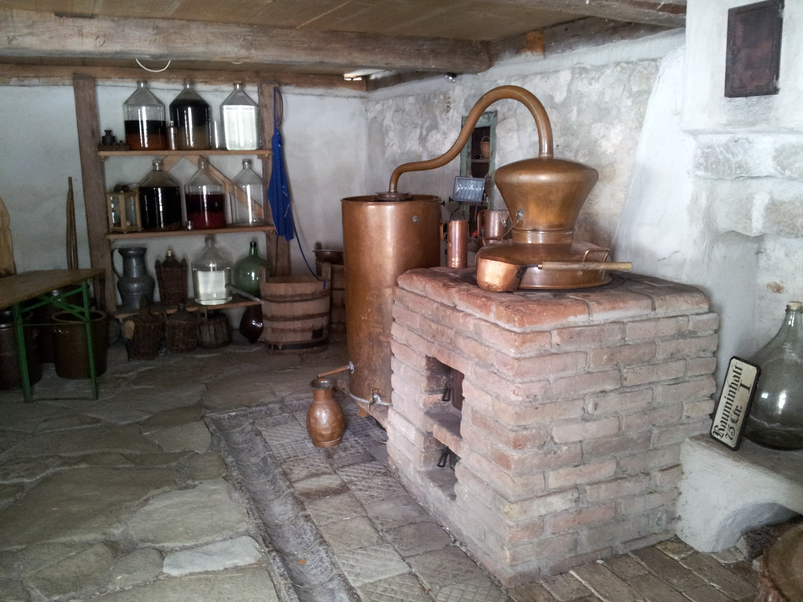 Markus Wasmeier farm and winter sports museum, distillery